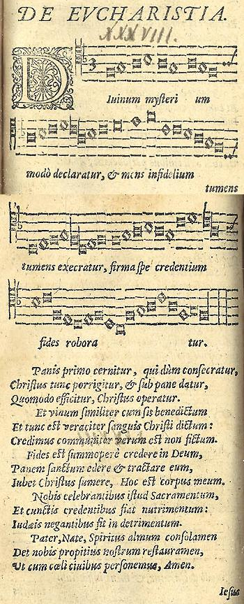 Divinum mysterium in the original version of Piae Cantiones. This melody was combined with Prudentius' poem "Corde natus", translated as "Of the Father's Heart/Love Begotten"